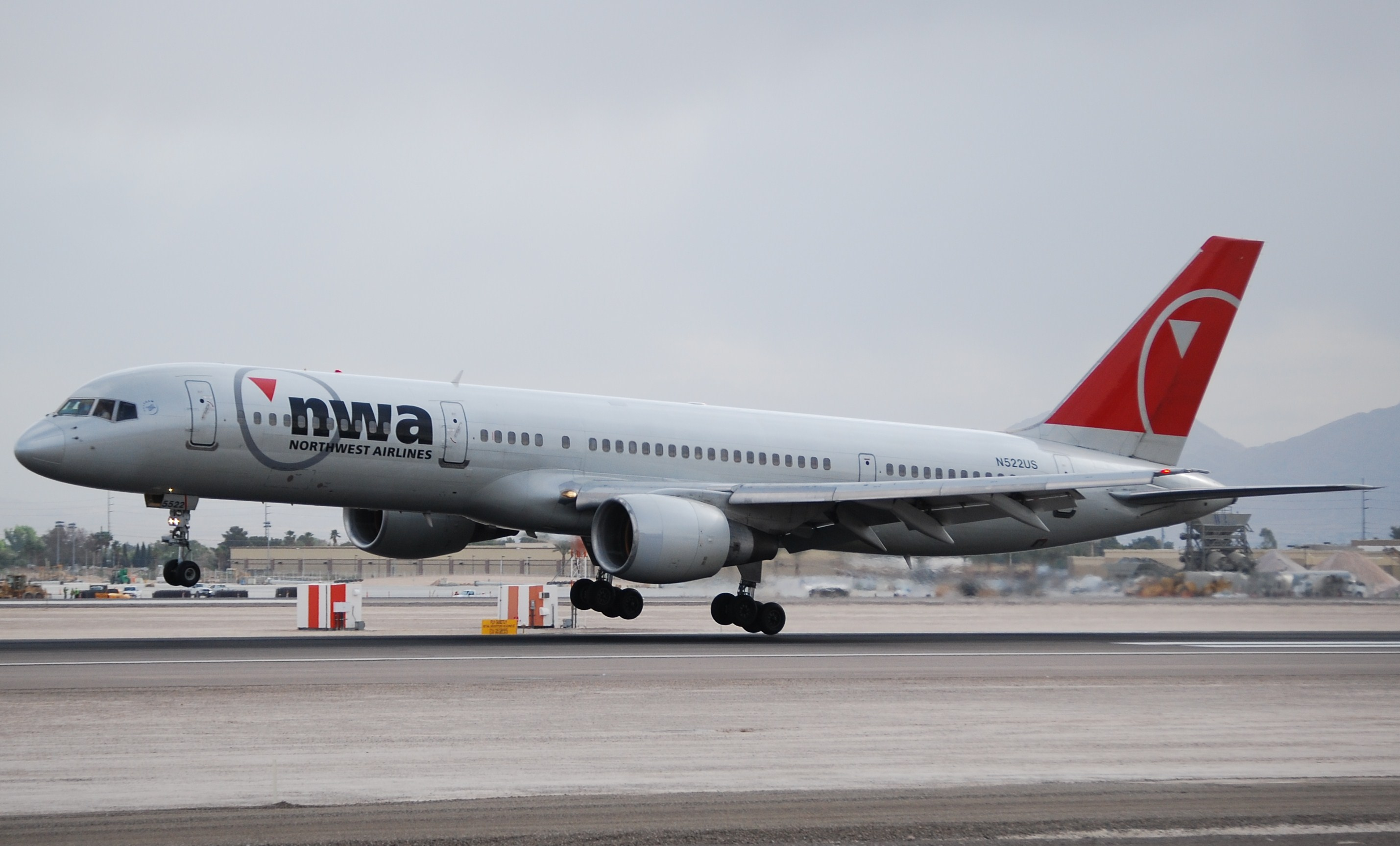 NORTHWEST AIRLINES 757-200